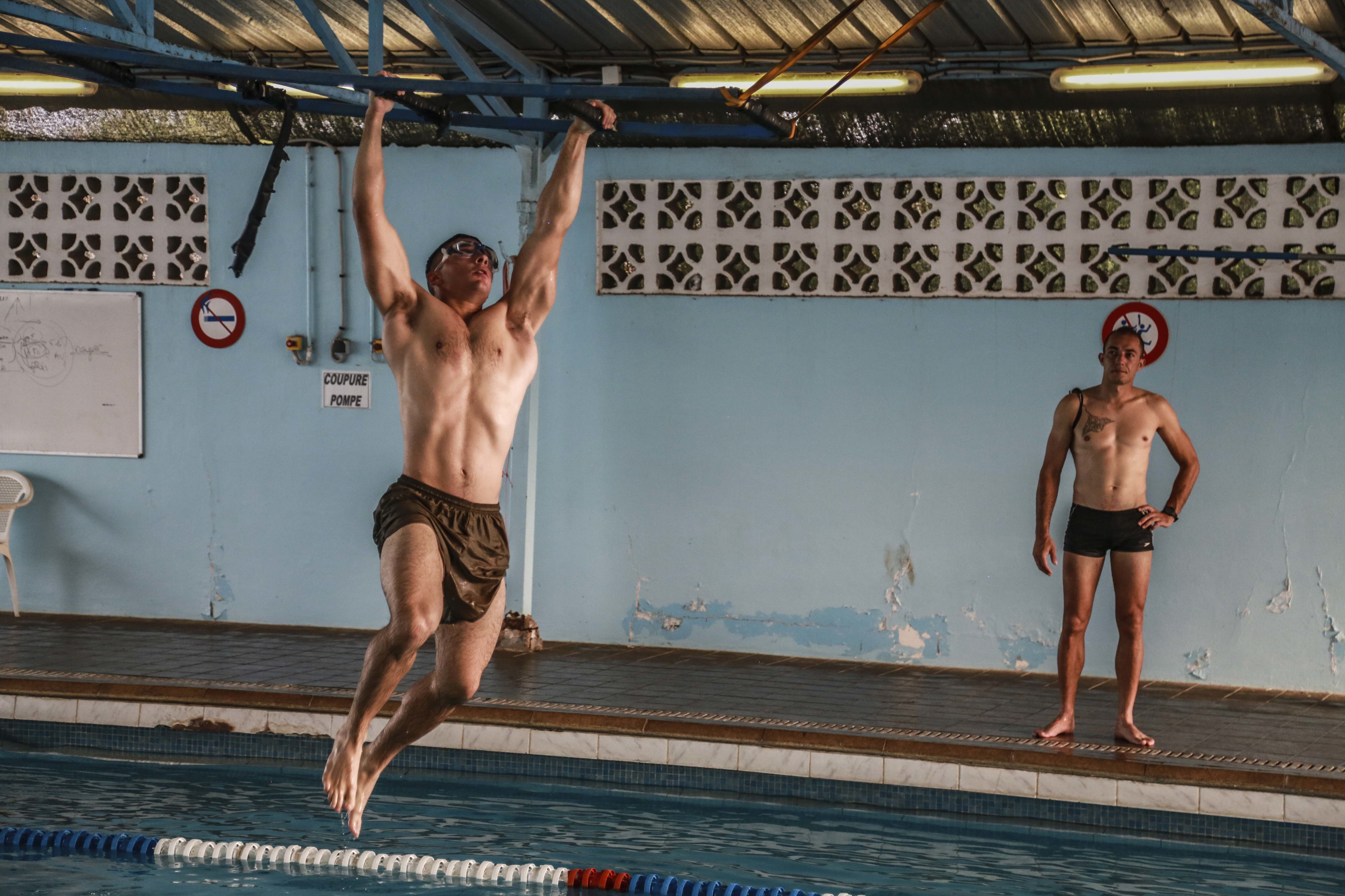 BASE AERIENNE 188, Djibouti (Sept. 22, 2015) U.S. Marine Cpl. Michael Odintz swings across monkey bars as part of an obstacle during the swim portion of the indoctrination prior to participating in a desert survival course. Odintz is a squad leader with Delta Company, Light Armored Reconnaissance Detachment, 15th Marine Expeditionary Unit. Elements of the 15th MEU are training with the 5th RIAOM in Djibouti in order to improve interoperability between the MEU and the French military. (U.S. Marine Corps photo by Sgt. Steve H. Lopez/Released) Unit: 15th Marine Expeditionary Unit